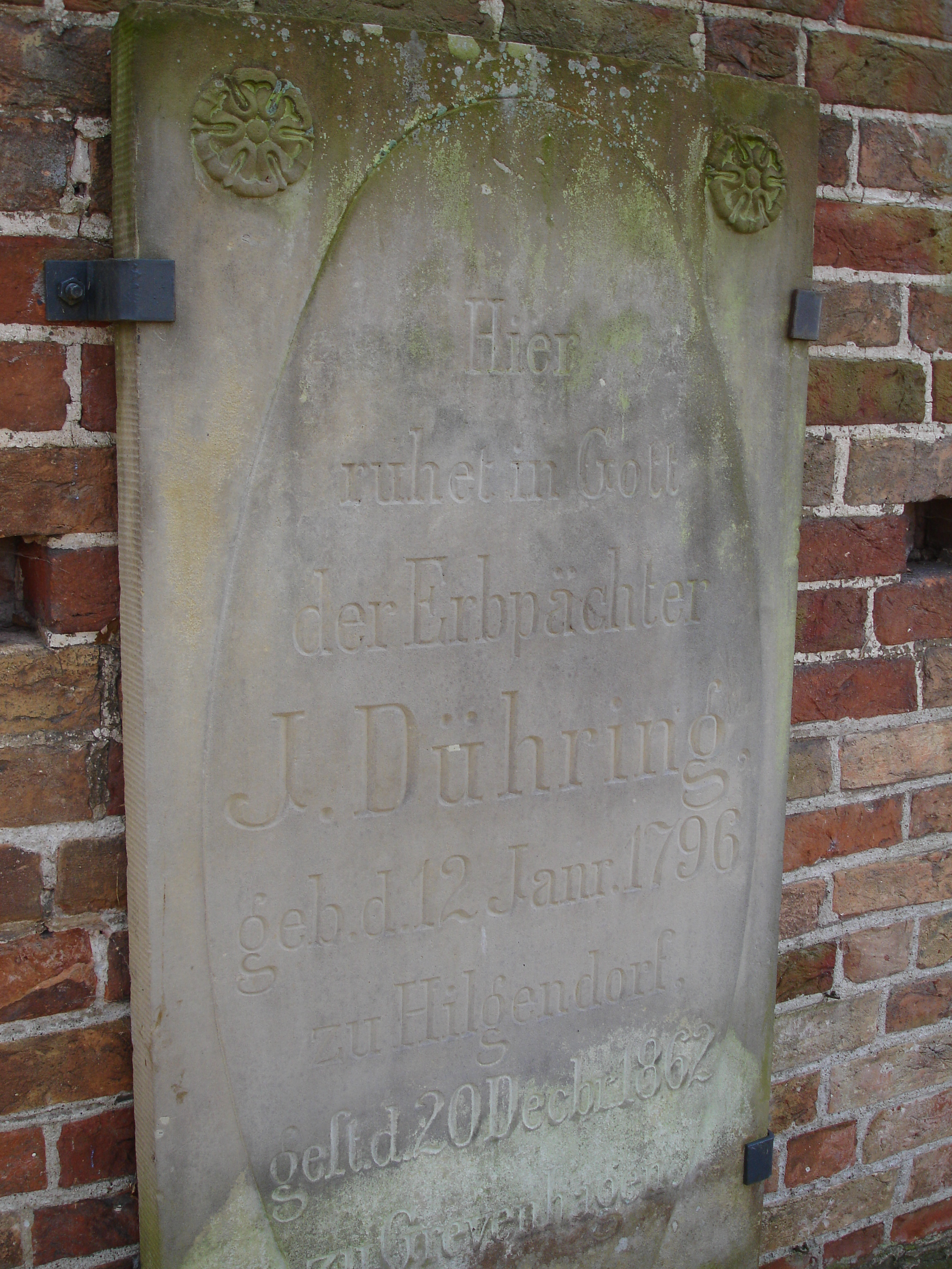 Church in Alt Meteln, district Nordwestmecklenburg, Mecklenburg-Vorpommern, Germany